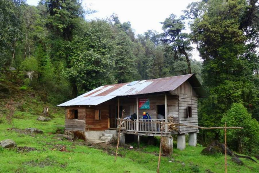 Tangta Camp, Thusum beat, Neora Valley National Park,West Bengal,India